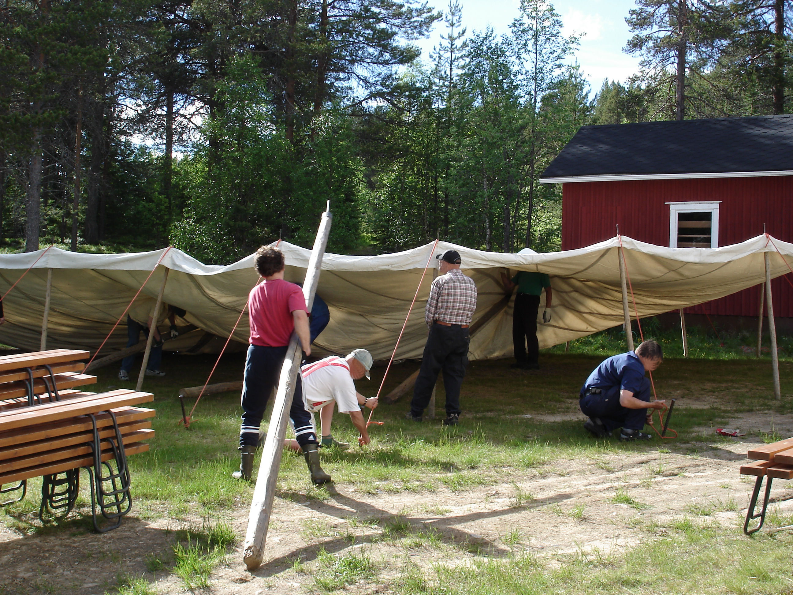 talkoot